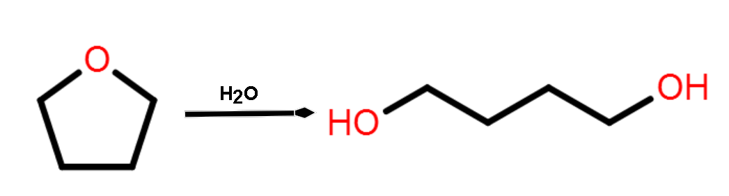 1,2-butanediol synthesis from tetrahydrofuran hydration